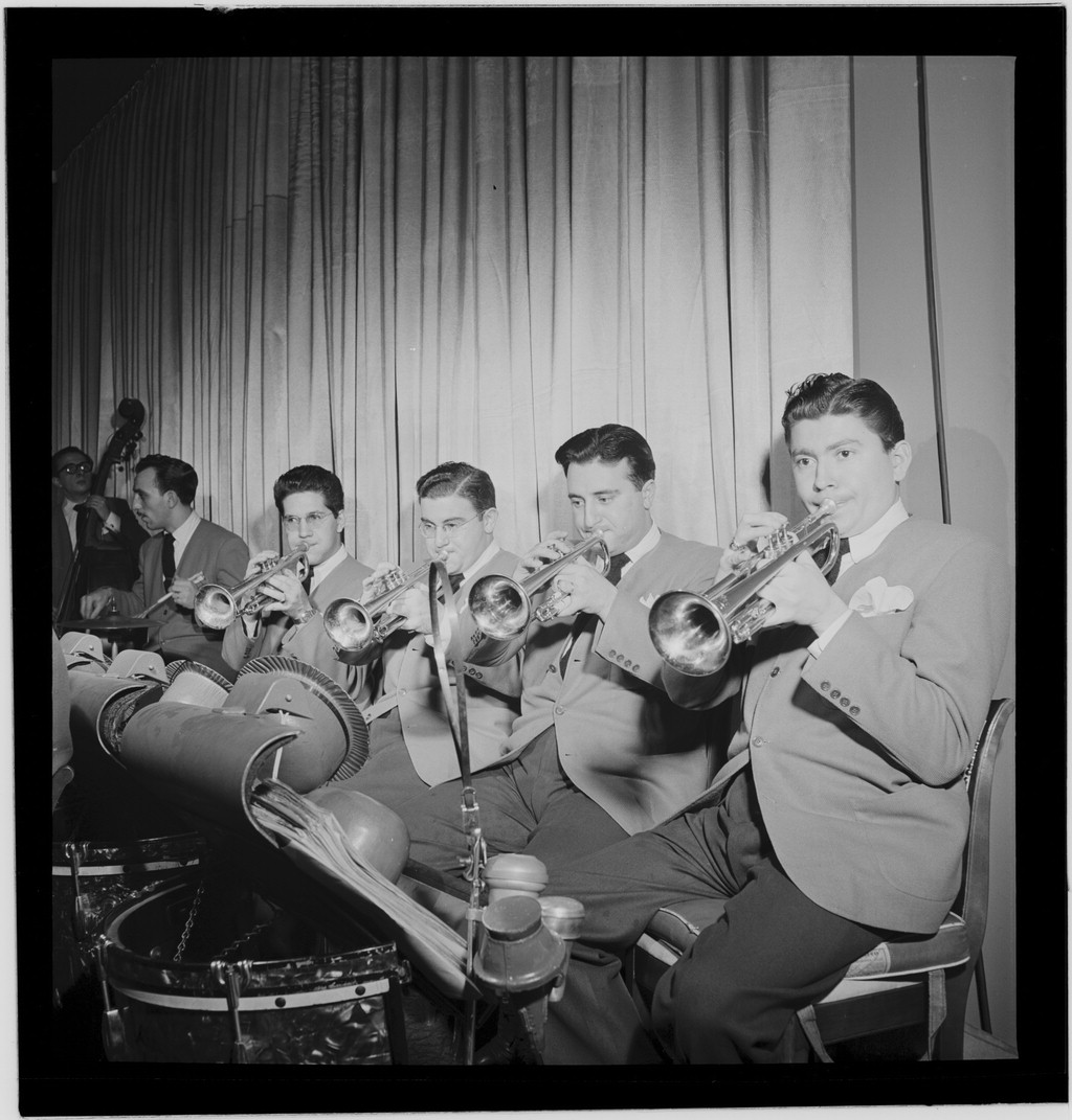 Gottlieb, William P., 1917-, photographer. [Portrait of John Chance, Paul Kashian, Nick Travis, Chuck Genduso, Joe Ferrante, and Curly Broyles, Hotel Commodore, Century Room, New York, N.Y., ca. Jan. 1947] 1 negative : b&w ; 2 1/4 x 2 1/4 in. Caption from Down Beat: (right), trumpet section, (left to right) Nick Travis, Chuck Genduso, Joe Ferrante, Curly Broyles Notes: Gottlieb Collection Assignment No. 219 Purchase William P. Gottlieb Forms part of: William P. Gottlieb Collection (Library of Congress). In: "McKinley ork plays most interesting dance music in biz," Down Beat, v. 16, no. 3 (Jan. 29, 1947), p. 8. Subjects: Chance, John Kashian, Paul Travis, Nick Genduso, Chuck Ferrante, Joe, 1929-1980 Broyles, Curly Ray McKinley Orchestra Jazz musicians--1940-1950. Big bands--1940-1950. Trumpet players--1940-1950. Hotel Commodore Format: Portrait photographs--1940-1950. Group portraits--1940-1950. Film negatives--1940-1950. Rights Info: Mr. Gottlieb has dedicated these works to the public domain, but rights of privacy and publicity may apply. Repository: (negative) Library of Congress, Prints & Photographs Division, Washington D.C. 20540 USA, Part Of: William P. Gottlieb Collection (DLC) 99-401005 General information about the Gottlieb Collection is available at Persistent URL: Call Number: LC-GLB23- 1373 This work is from the William P. Gottlieb collection at the Library of Congress. Rights and restrictions. In accordance with the wishes of William Gottlieb, the photographs in this collection entered into the public domain on February 16, 2010.